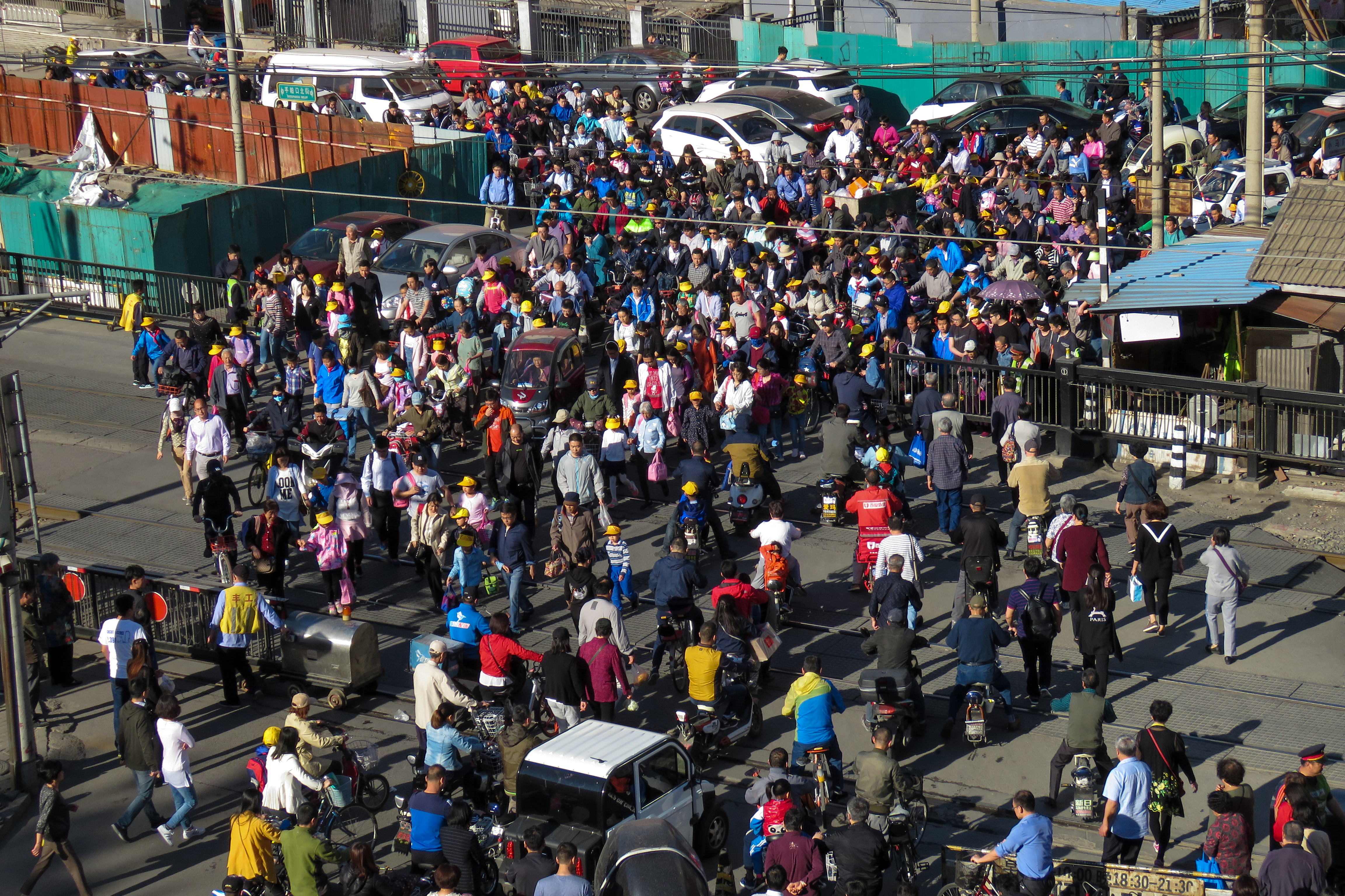 So this is "a hundred ships in speed contest", a scene often seen here at school time. But the scene wouldn't be long, for this level crossing would be closed on 7 May 2018.